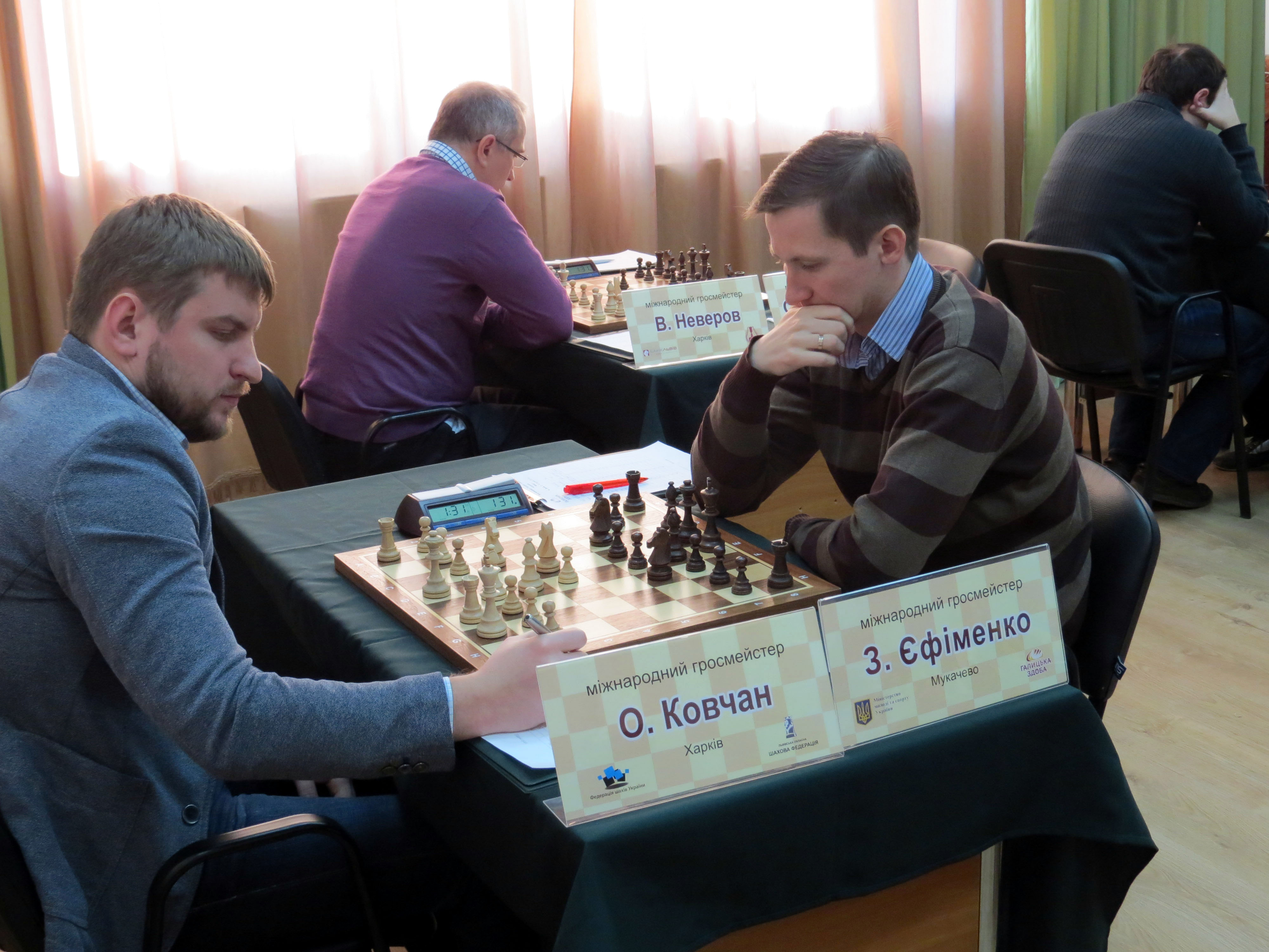 Kovchan Olexander - Efimenko Zahar, ukr champ (december 2015)